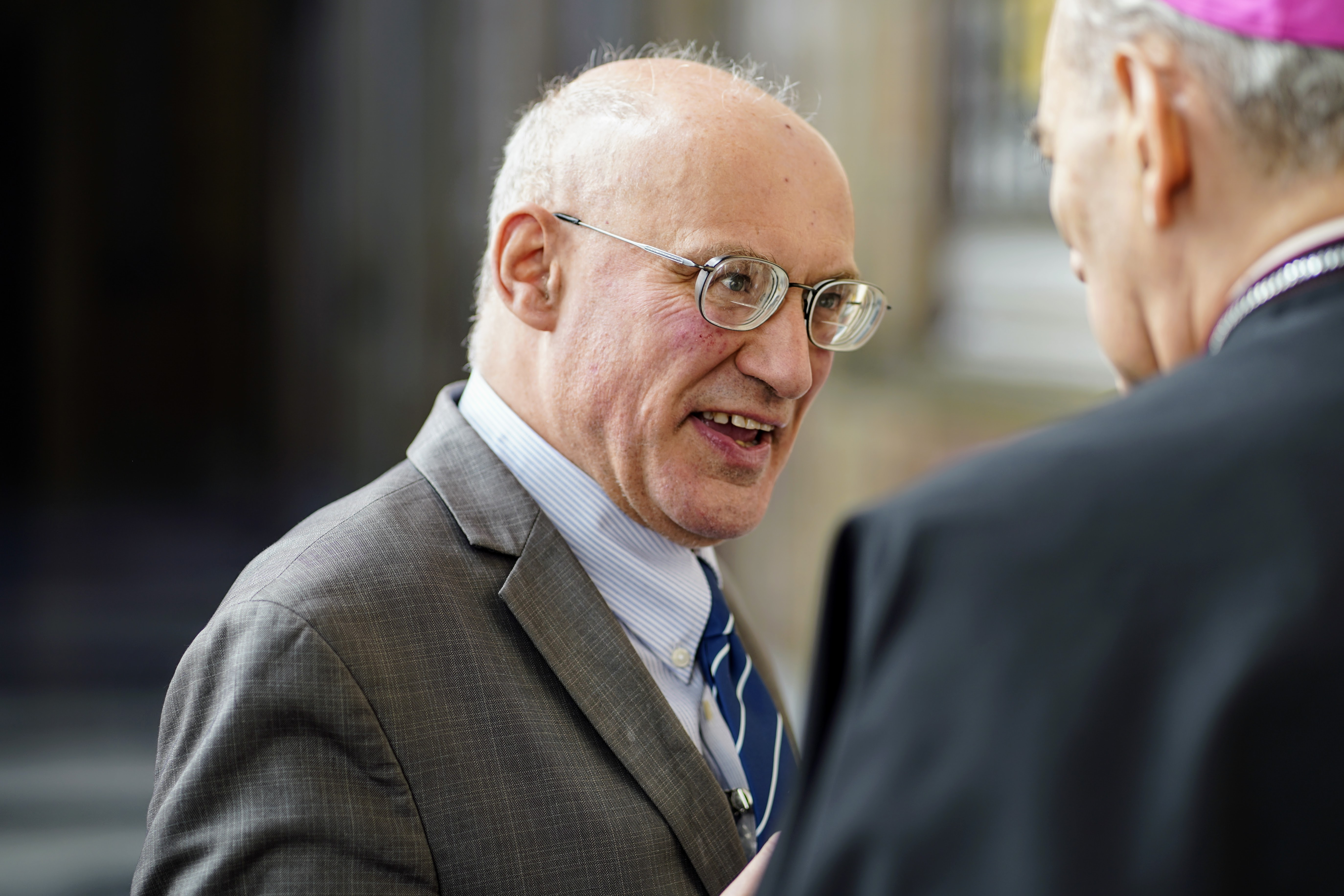 Pontifical Academician Vittorio Hösle at the Vatican on 7 February 2020